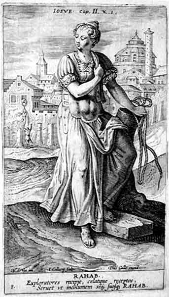 From: Hans (Jan) Collaert (Antwerp, 1566-1628), Rahab (Hol. 13-32). Engraving after Marten de Vos, c. 1581. Plate 8 from a set of Celebrated Women of the Old Testament consisting of twenty engravings (plus frontispiece) by Hans or Adriaen Collaert and Carel van Mallery published in Antwerp by Phillip Galle (1537-1612)